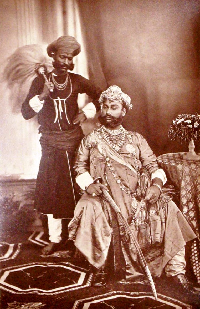 Tukojirao II,The Maharaja Holkar of Indore seated in 1877 with his attendant